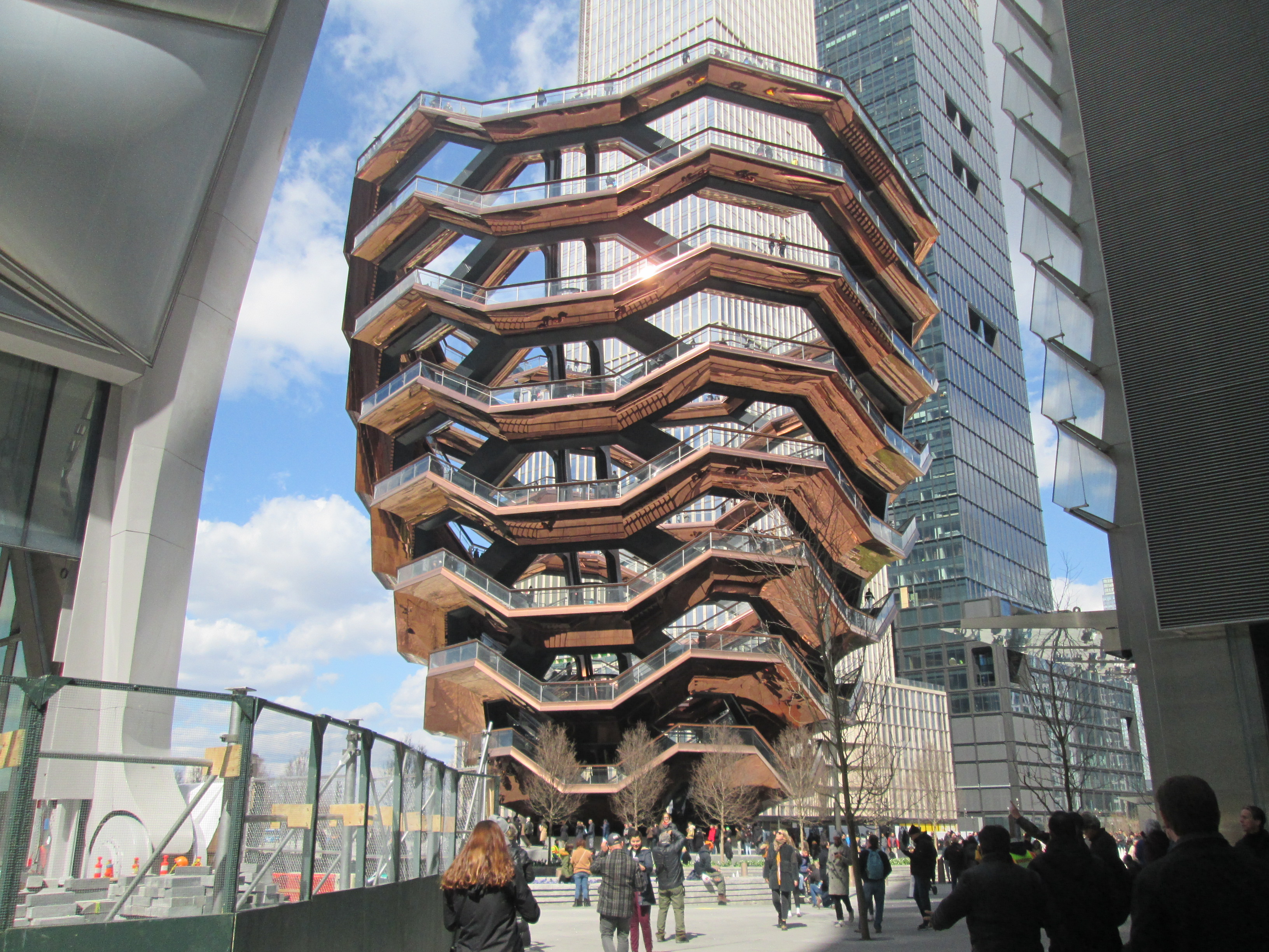 The Hudson Yards development in New York City in March 2019